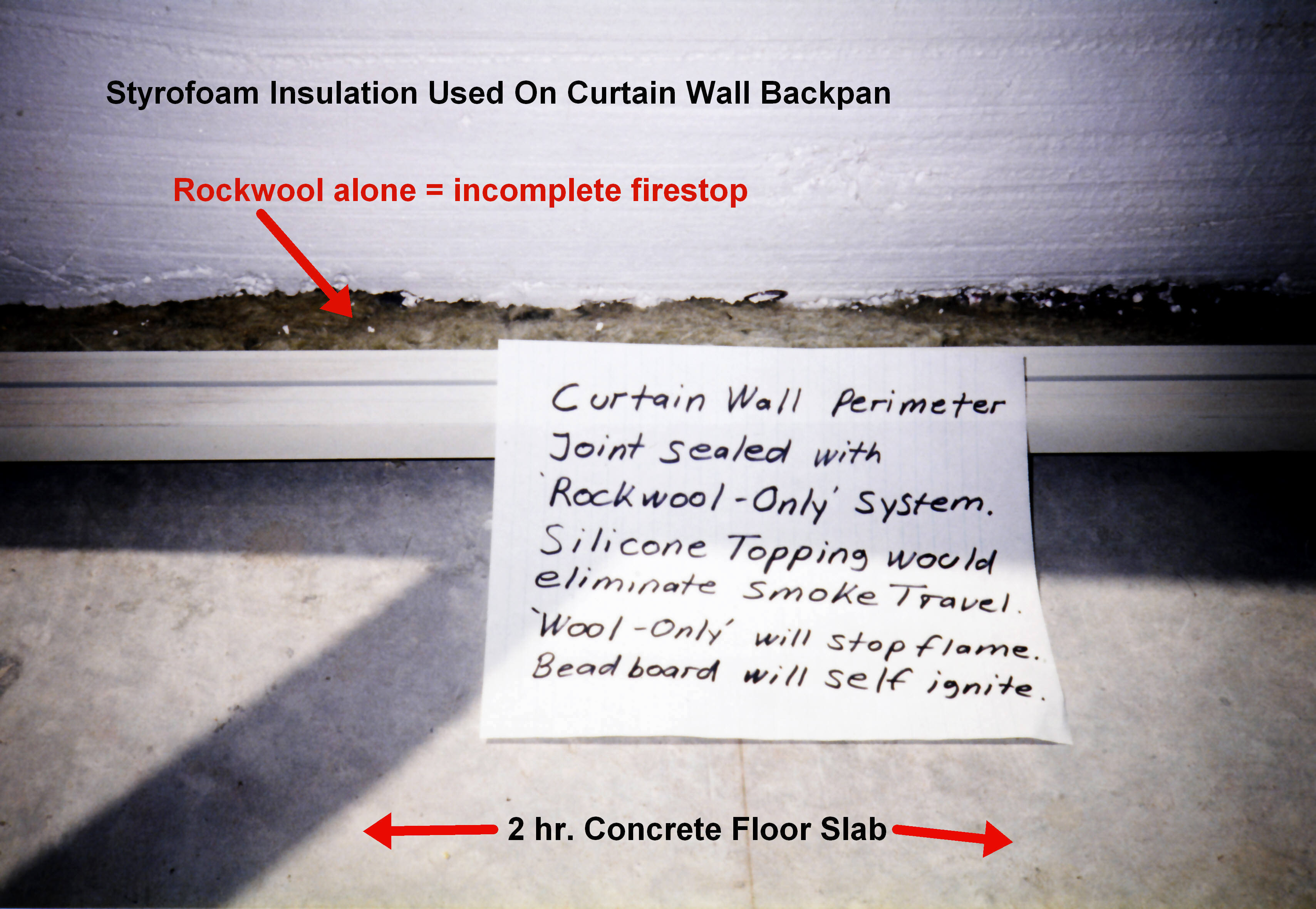 Curtain wall backpan insulated with combustible styrofoam insulation. Incomplete firestop made of compressed rockwool.